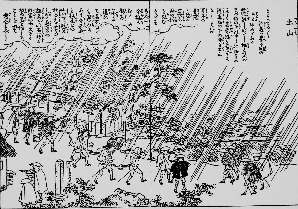 Tsuchiyama-juku in Tsuchiyama from Ōmi-meisyo-zue in 1814